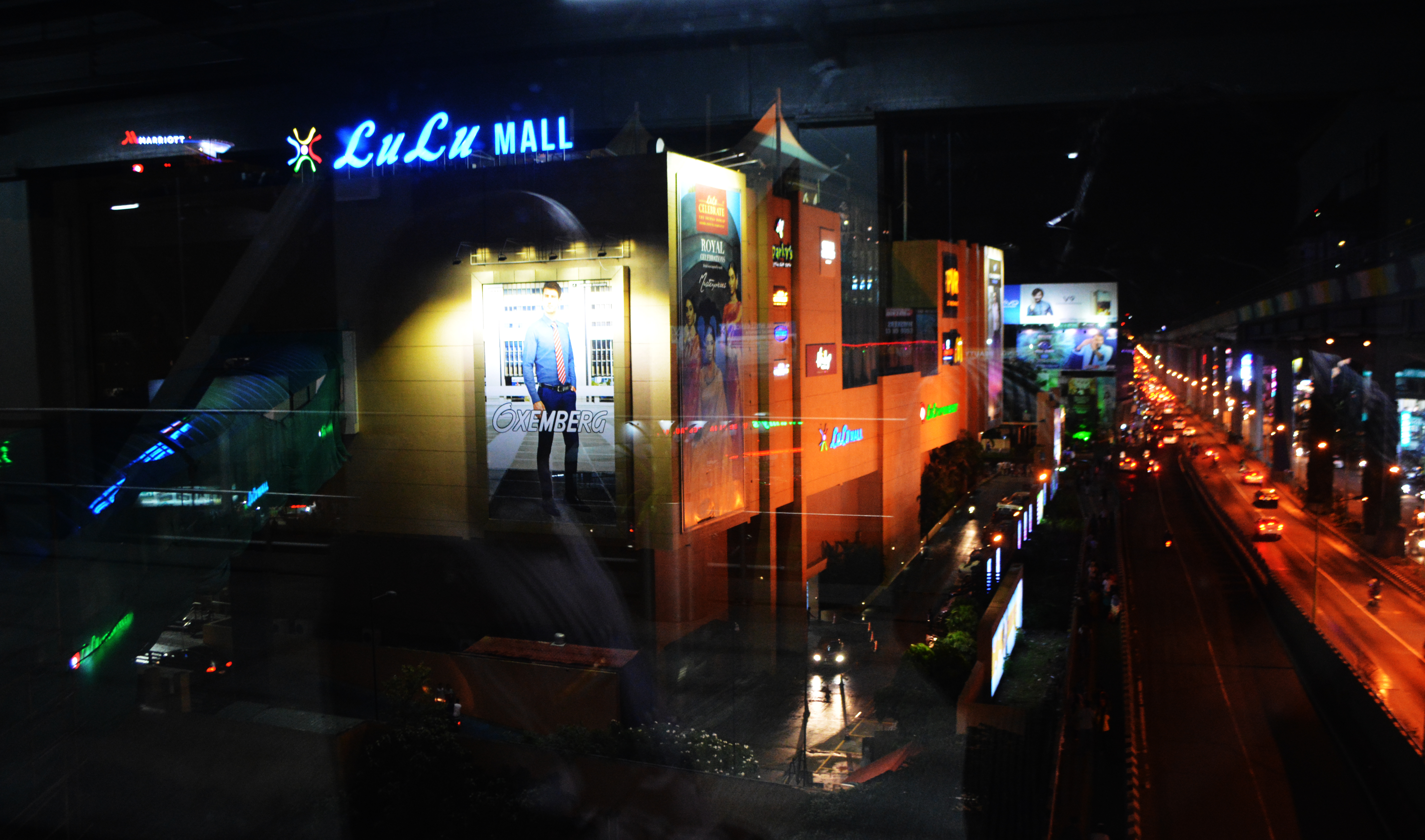 This photo is taken by me on 10-06-2018